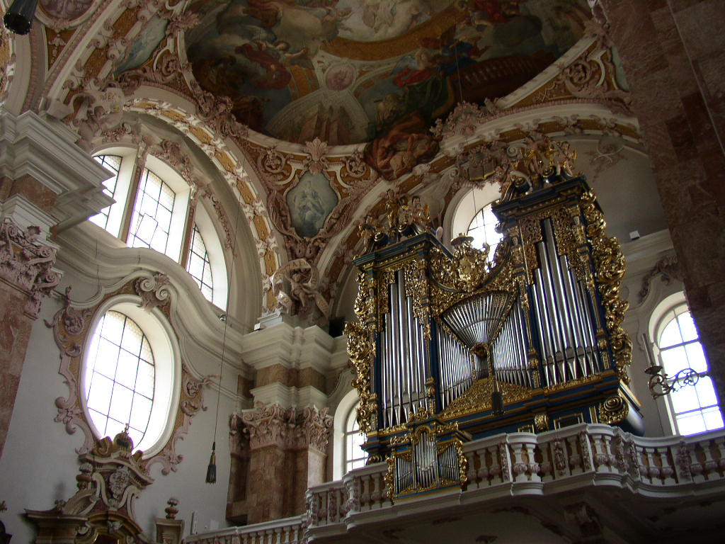 Innsbruck, Cathedral of St Jacob. Organ loft.